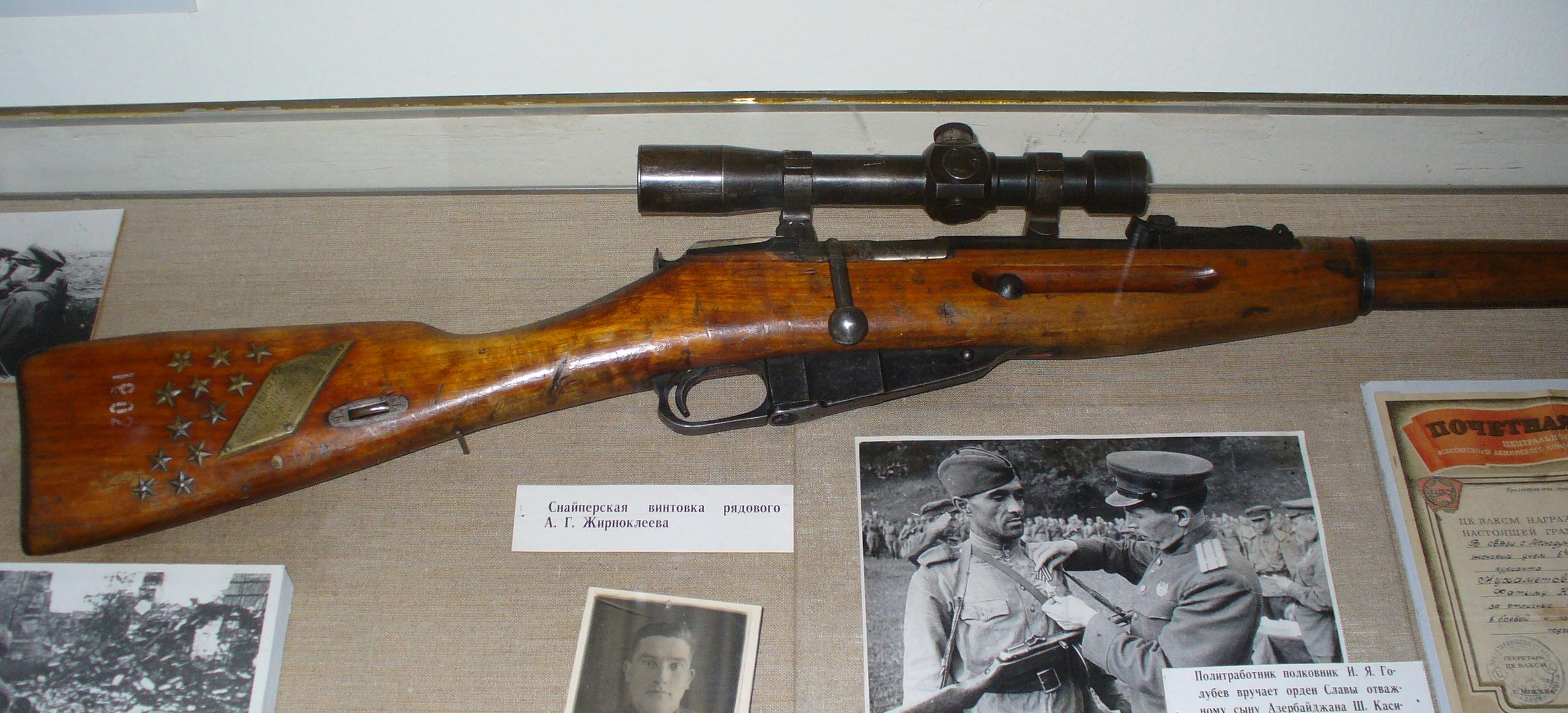 Mosin-Nagant rifle, sniper model (on display the rifle of A.G. Shirnokleyev, Russian sniper during WWII). German-Soviet museum Berlin